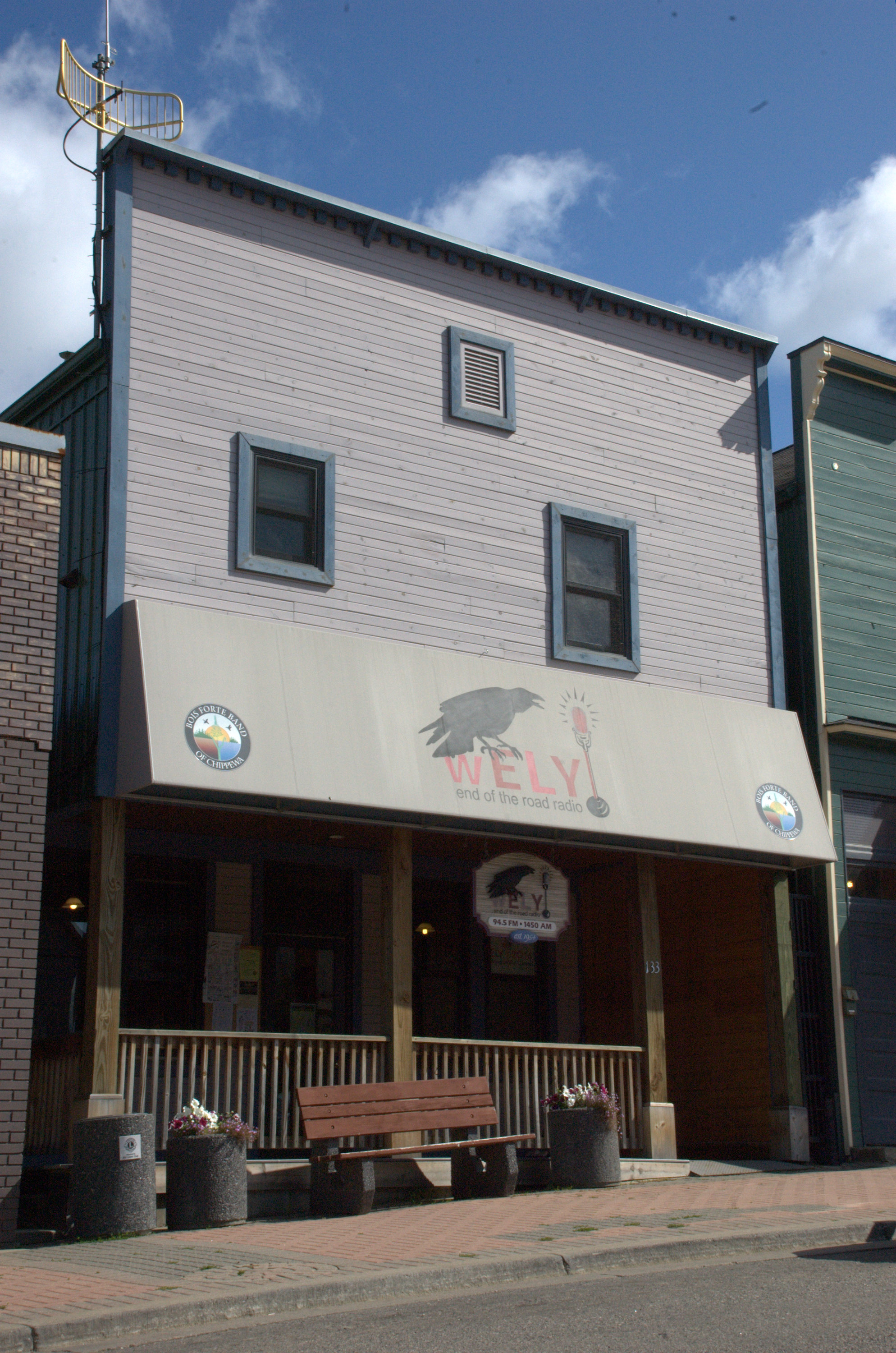 Northen MN